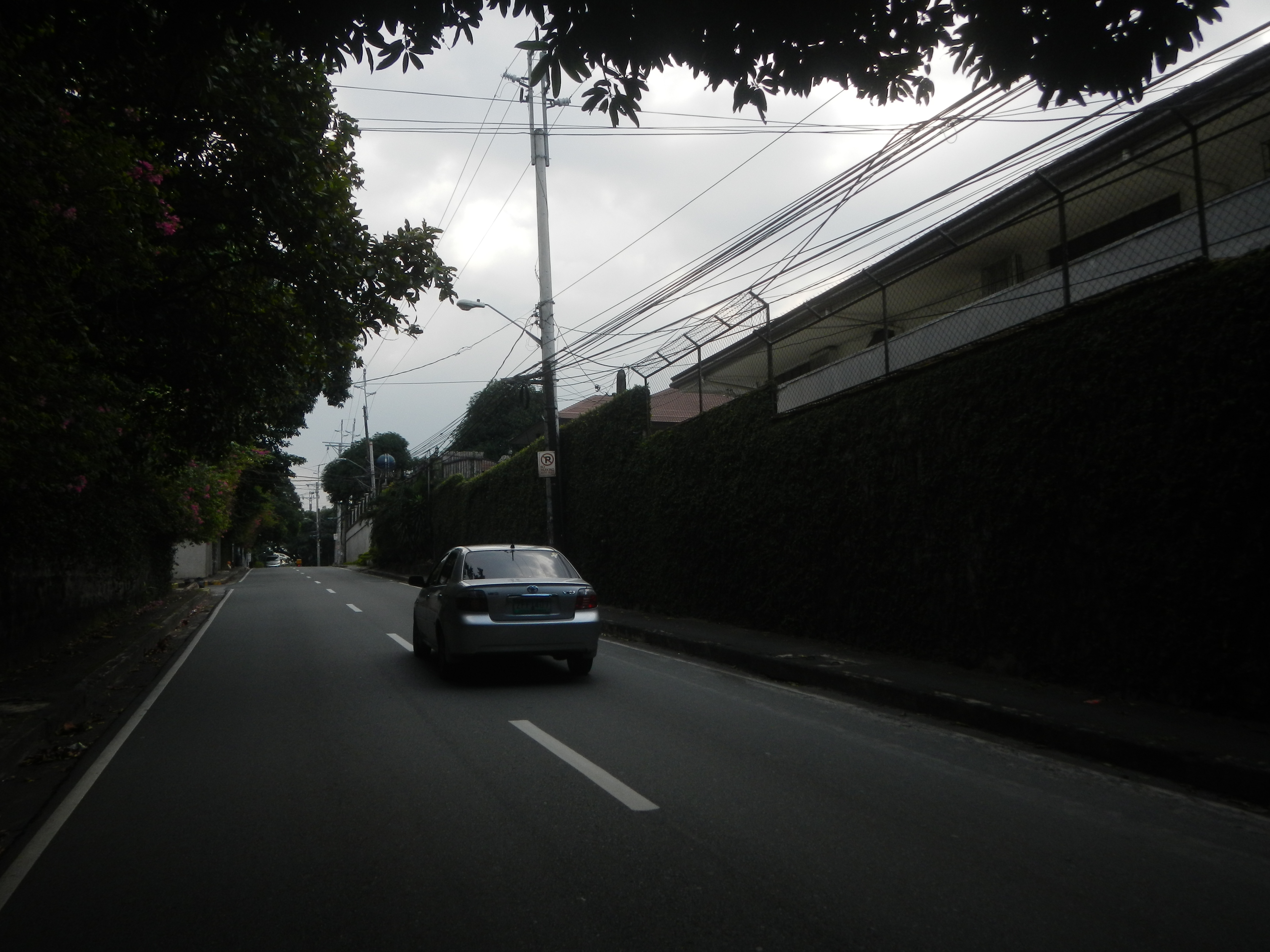 Balete Drive (E. Rodriguez, Sr. Avenue - Bouganvilla Street), Mariana, New Manila, Quezon City in front of Balete Drive Extension Balete Drive Haunted highway List of haunted locations in the Philippines Major roads in Metro Manila in the List of barangays of Metro Manila Legislative districts of Quezon City Districts 3, Barangays of Quezon City, Barangay Kristong Hari 14°37'28"N 121°1'31"E beside Mariana 14°37'1"N 121°2'13"E New Manila, Quezon City upon the List of rivers and estuaries in Metro Manila Diliman Creek from San Juan River (Metro Manila) Estuaries in Cubao, Quezon City along Aurora Boulevard (Note: Judge Florentino Floro, the owner, to repeat, Donor Florentino Floro of all these photos hereby donate gratuitously, freely and unconditionally all these photos to and for Wikimedia Commons, exclusively, for public use of the public domain, and again without any condition whatsoever).